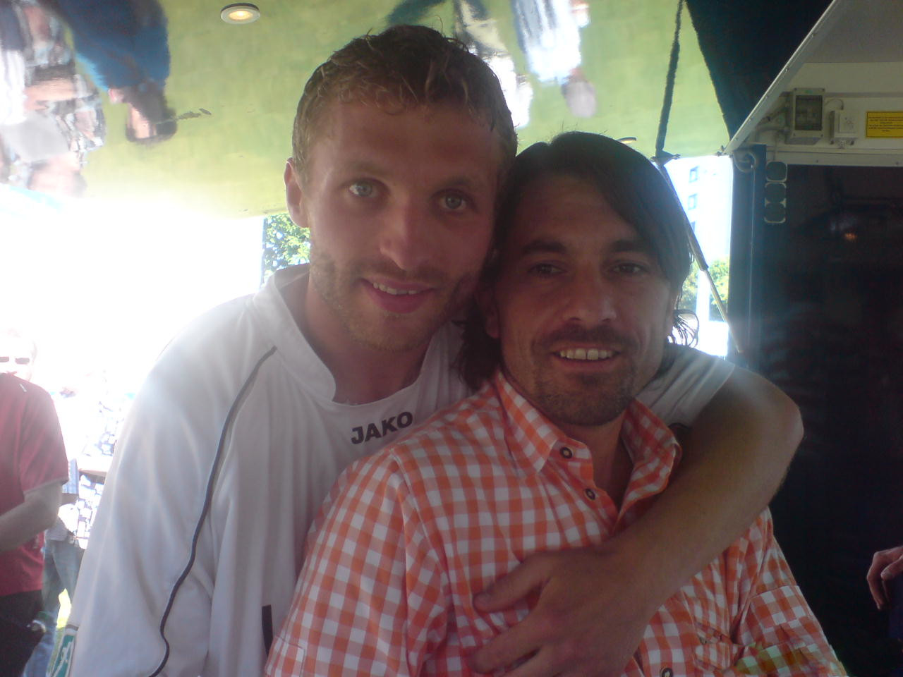 Harald Gfreiter (right) and Jürgen Schmid (left) at the staying up party of SSV Jahn Regensburg in the 3rd German Soccer League